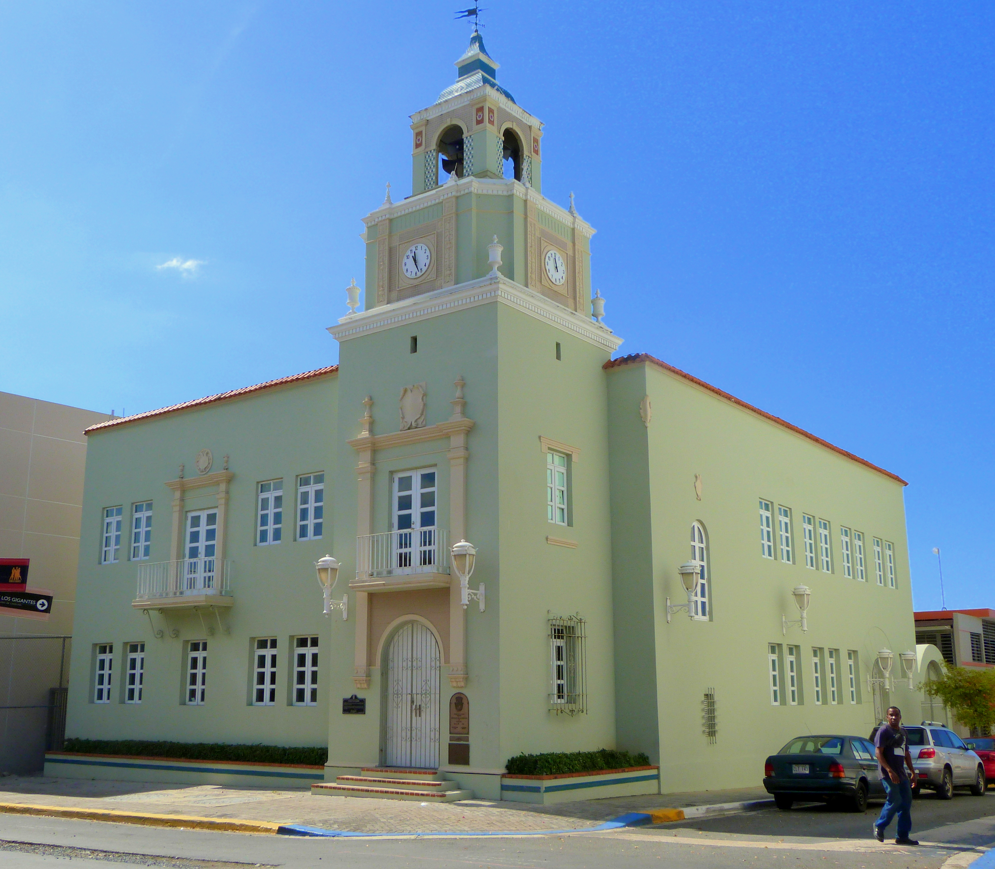 The historic Casa Alcaldía de Carolina (built 1927), located at the corner of Calle Sánchez Osorio and Calle José de Diego in central Carolina, Puerto Rico, is listed on the U.S. National Register of Historic Places.